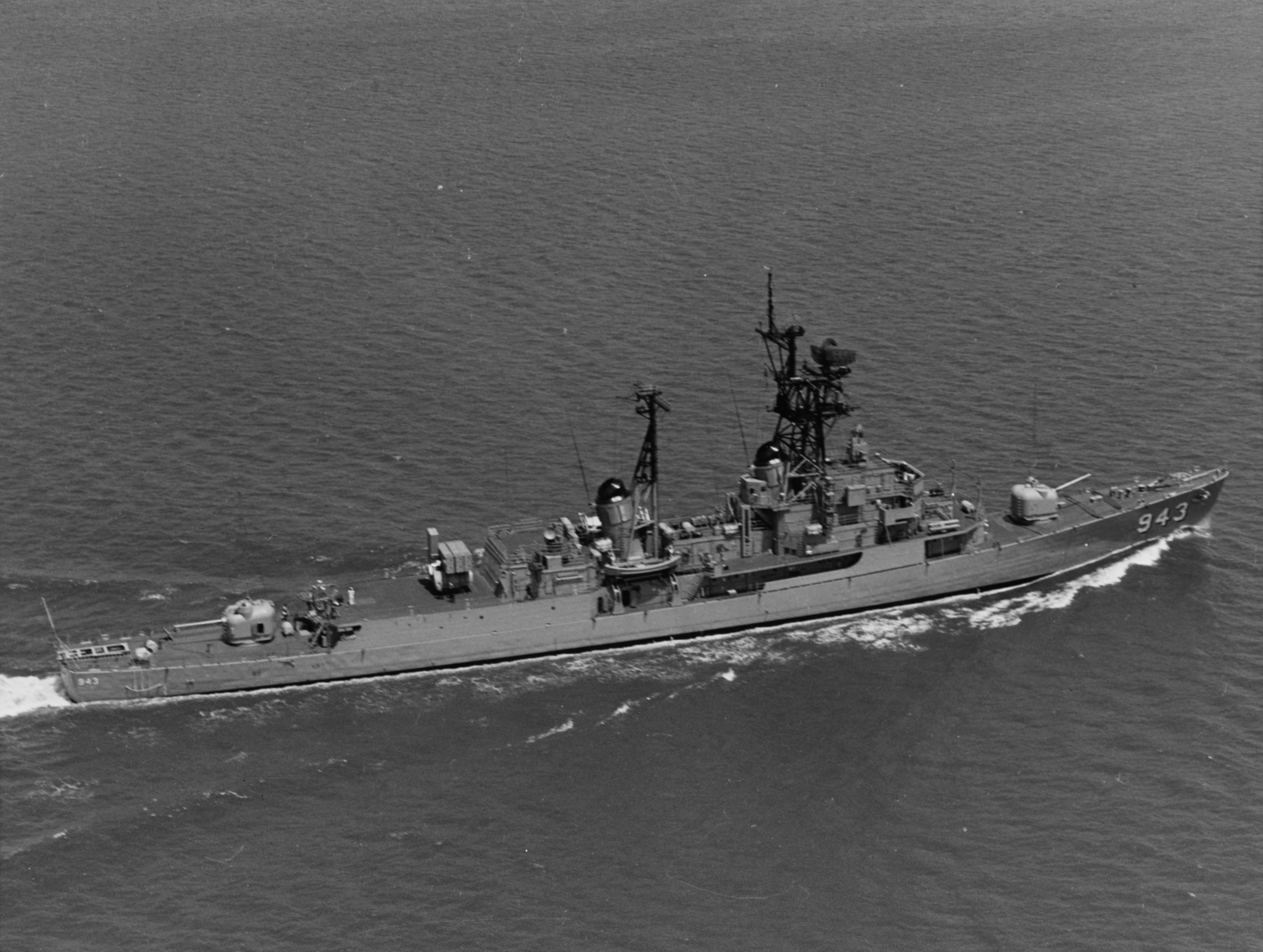 The U.S. Navy destroyer USS Blandy (DD-943) underway at sea, circa in 1970.